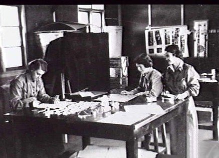 Bundaberg, Qld. Left to right: Aircraftwomen L. Hamilton, Claire Webb, and D. Robinson Kitch, WAAAF, preparing identification photos of new recruits for training at No. 8 Service Flying Training School, RAAF.